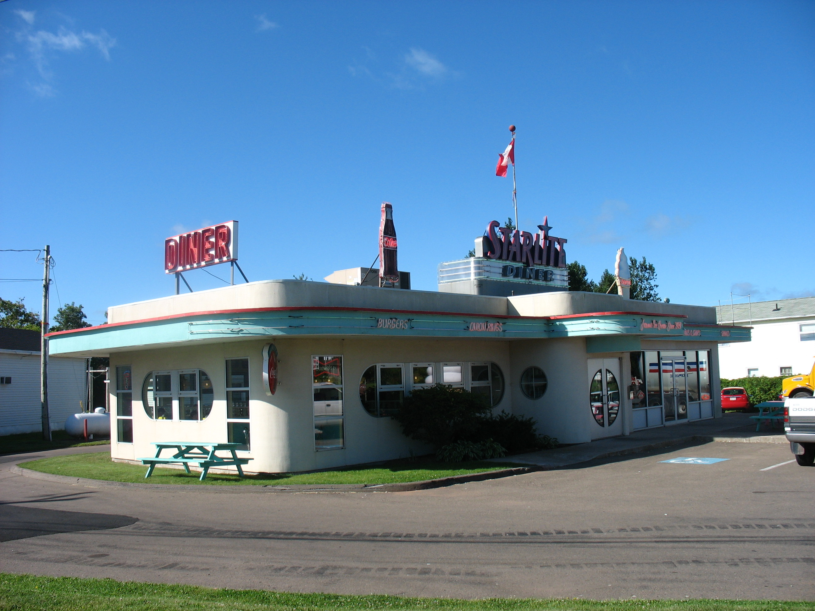 Diner north of Summerside (Prince Edward Island, Canada)